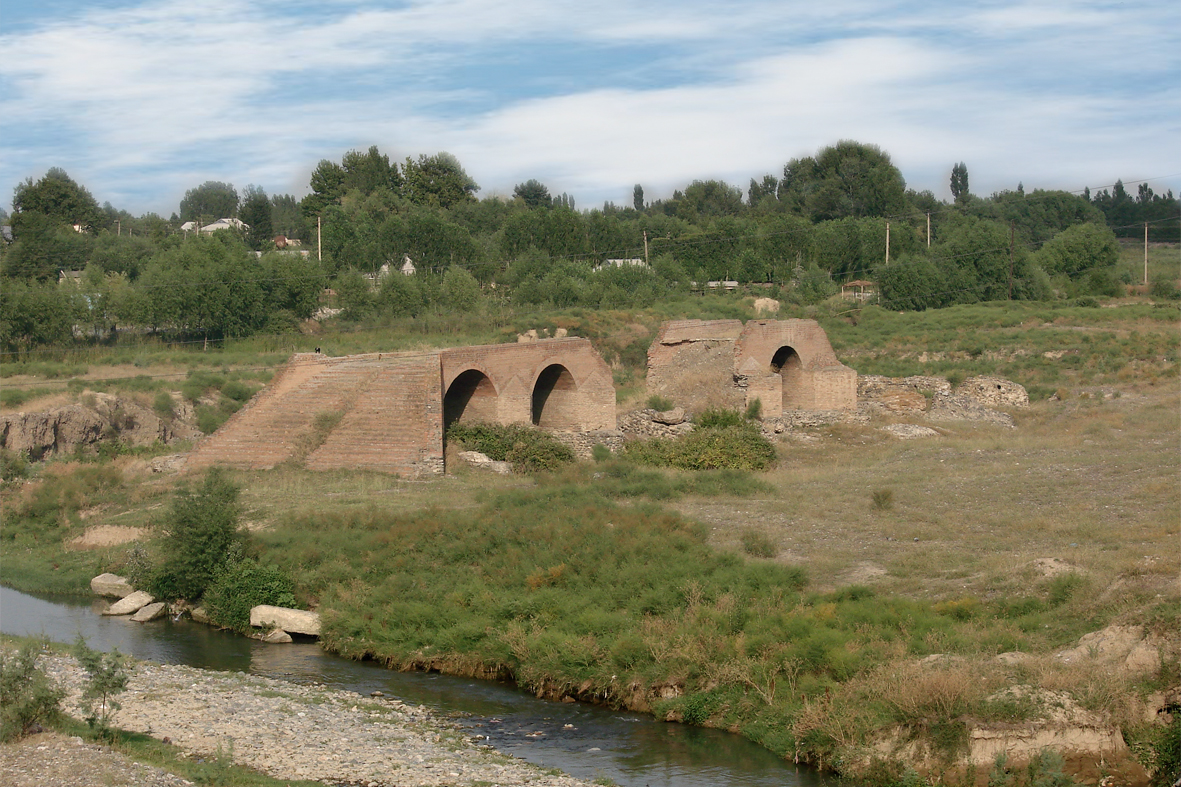 6th century bridge over Tartar River in Barda